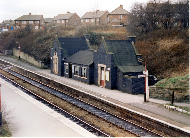 Bryn railway station Original description: Bryn station - down platform buildings Down = toward Wigan